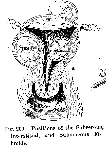 Uterine fibroids